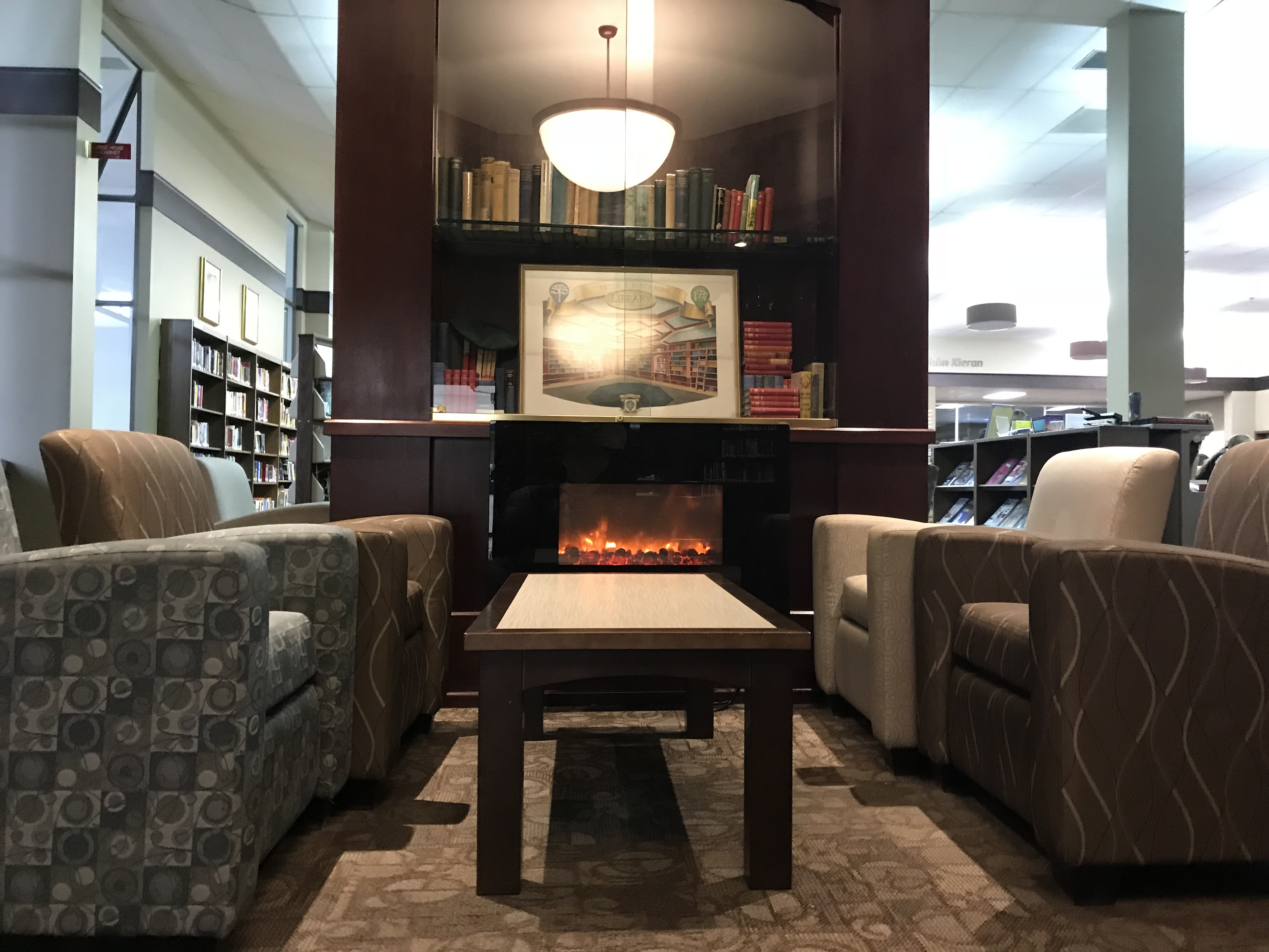 Seating in Library at STS